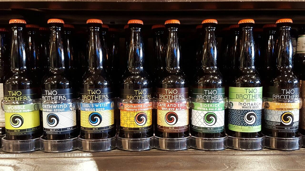 Two Brothers on the shelf at Jewel Osco.